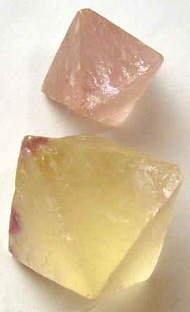 Octahedral fluorite crystals